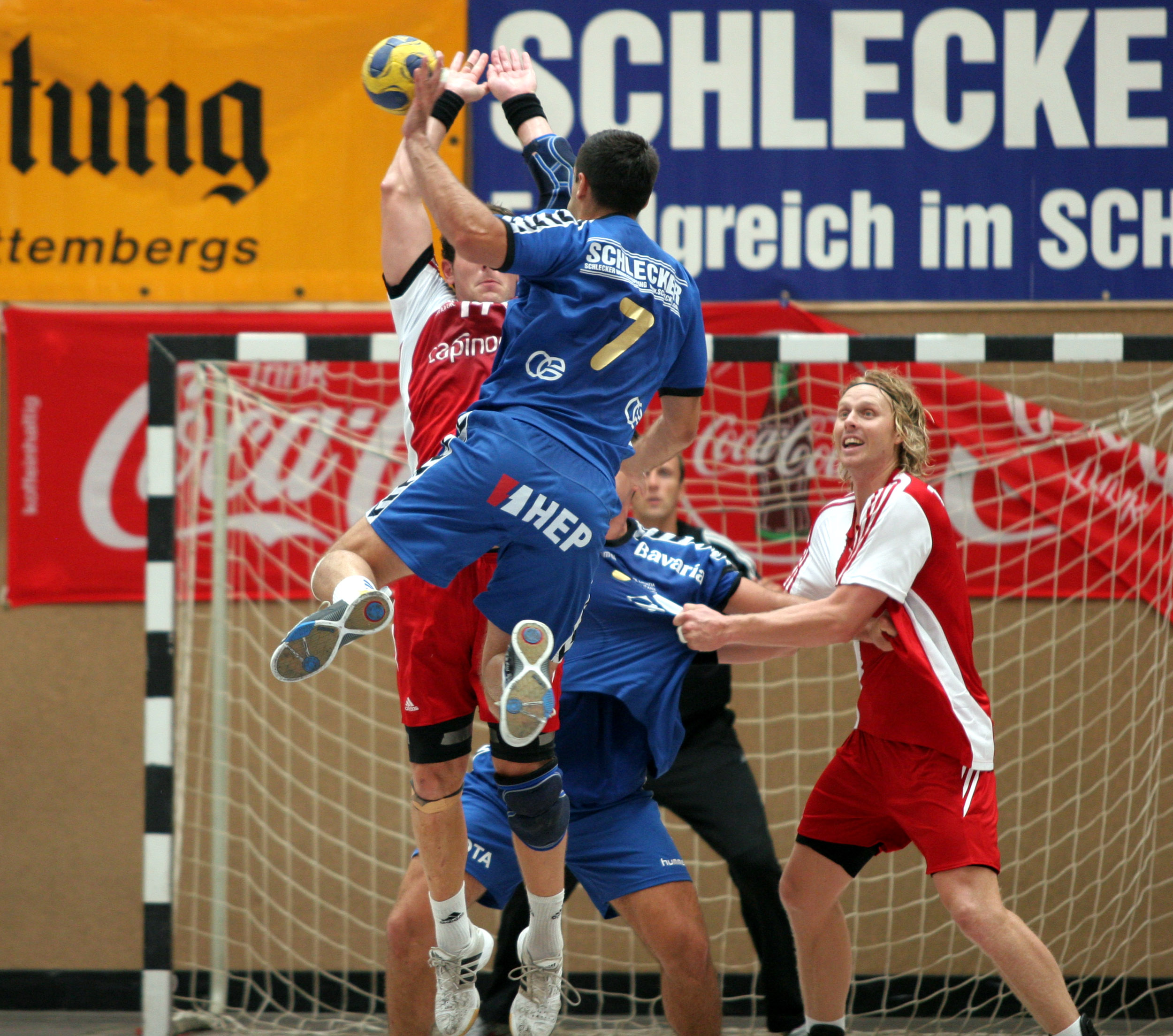 Kiril Lazarov, Macedonian handball player, playing for RK Zagreb, on August 22nd, 2009 in Ehingen (Germany), during the Schlecker Cup 2009.